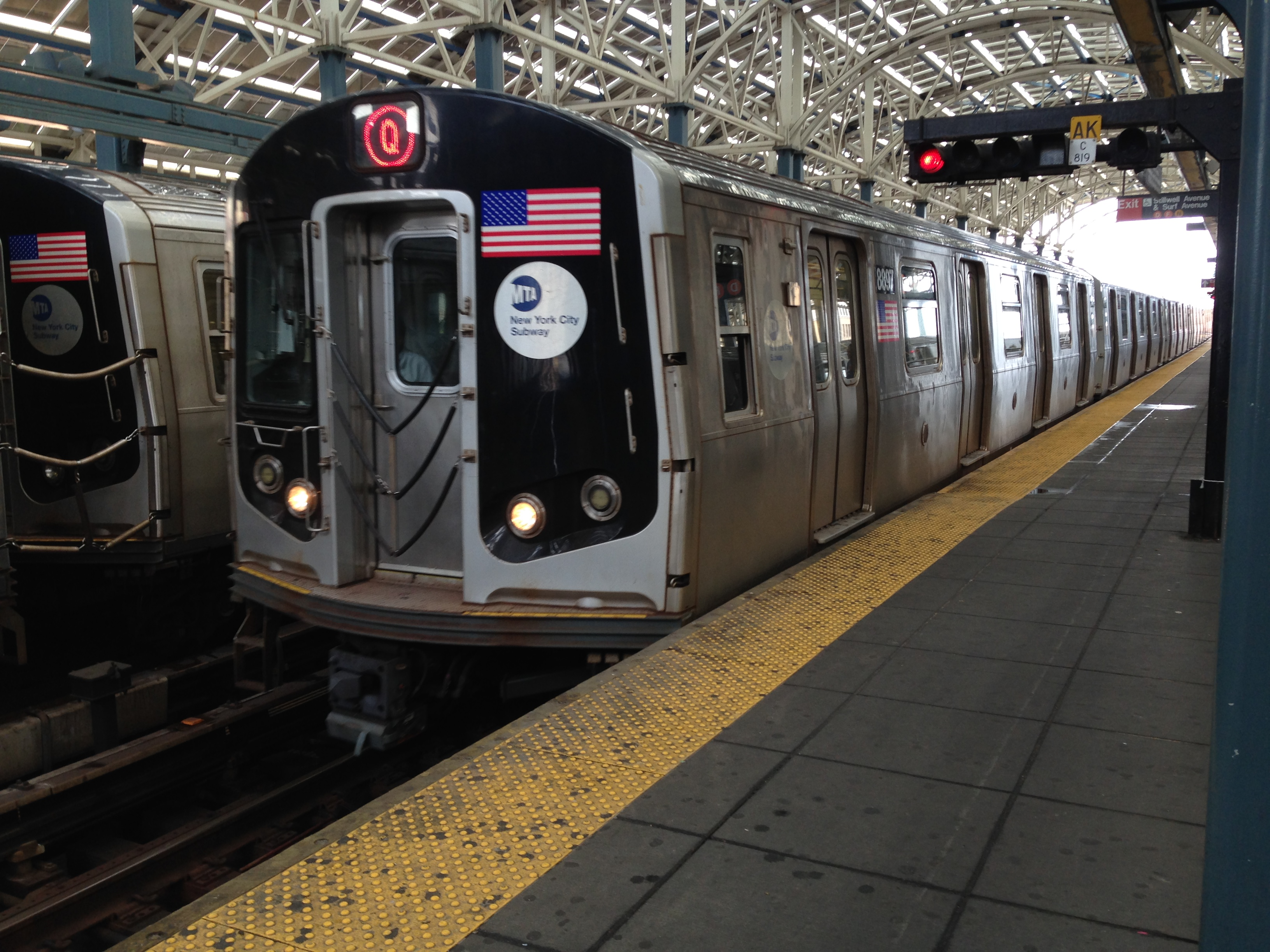 R160B Q train approaching its south terminus aka Coney Island.